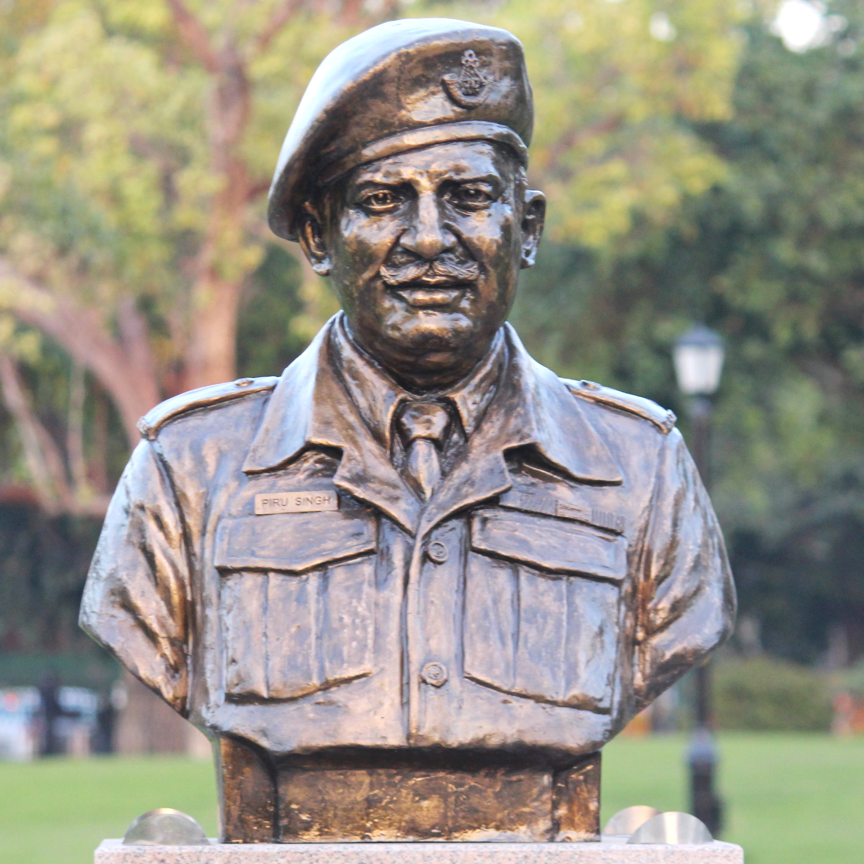 Flying Officer Nirmal Jit Singh Sekhon's statue at Param Yodha Sthal (section for Param Vir Chakra recipients), National War Memorial, New Delhi.